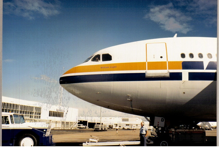 Trans Australia Airlines A300B4 VH-TAD. Photographed just prior to pushback at Brisbane's old Eagle Farm Airport 1988.